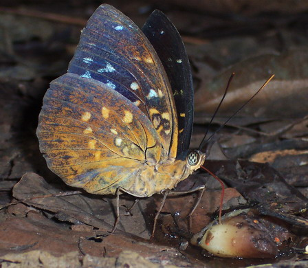 Lexias pardalis from Situgede, Bogor, West Java, Indonesia